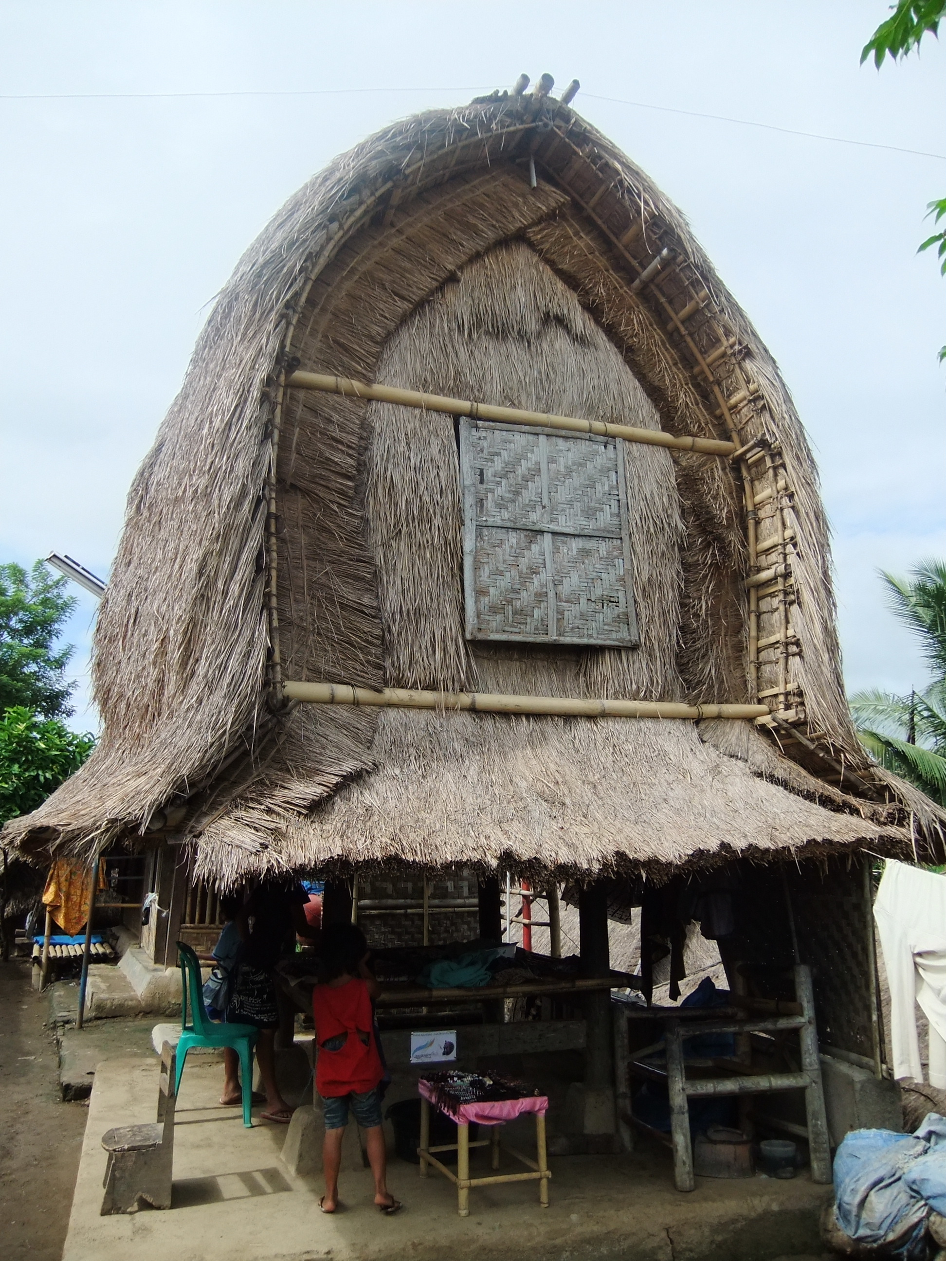 Rice barn. Traditional Sasak Village Desa Sade, Lombok, Indonesia.